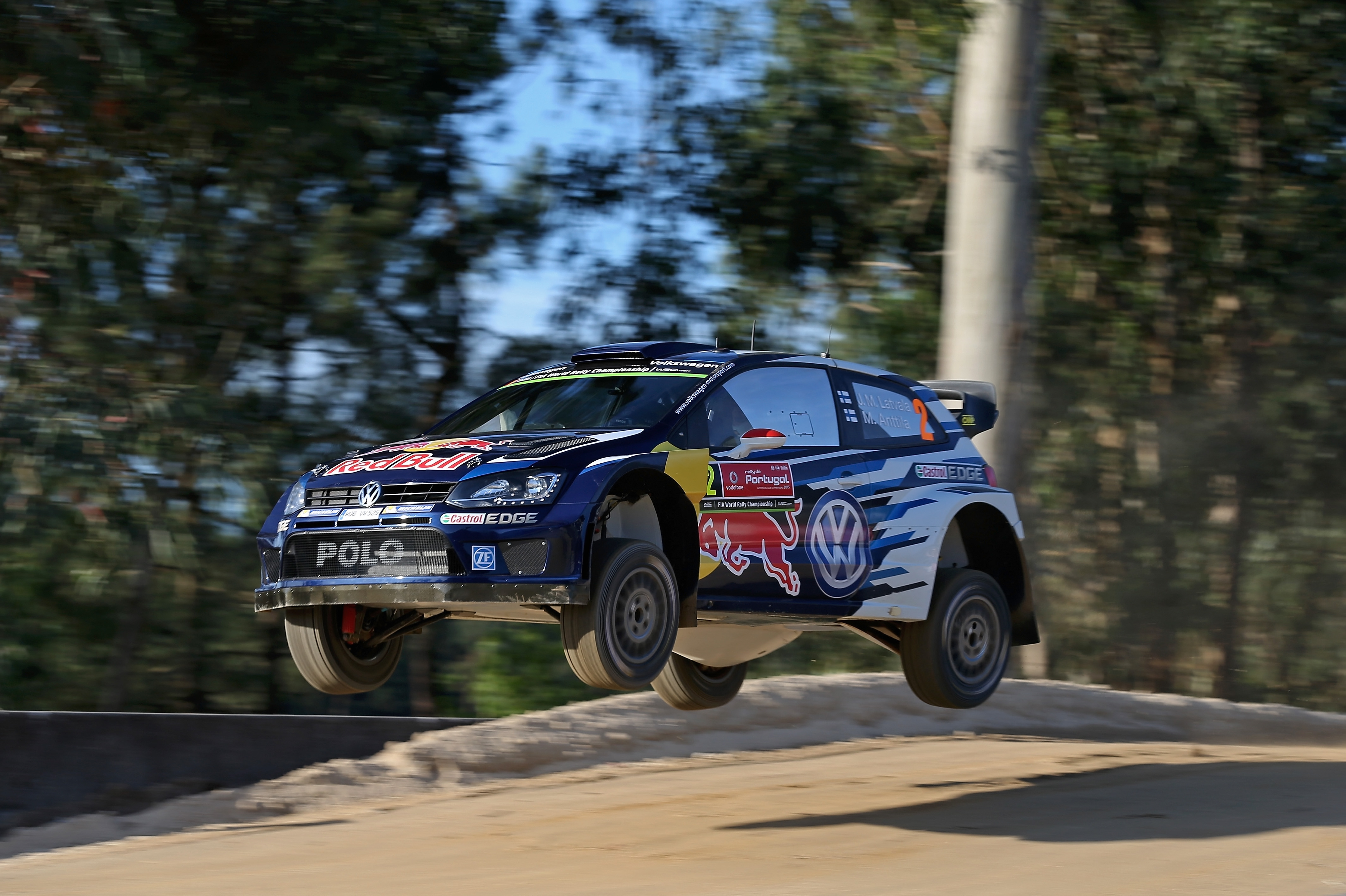 Jari-Matti Latvala and co-driver Miikka Anttila in their VW Polo R WRC at the 2015 Rally Portugal.